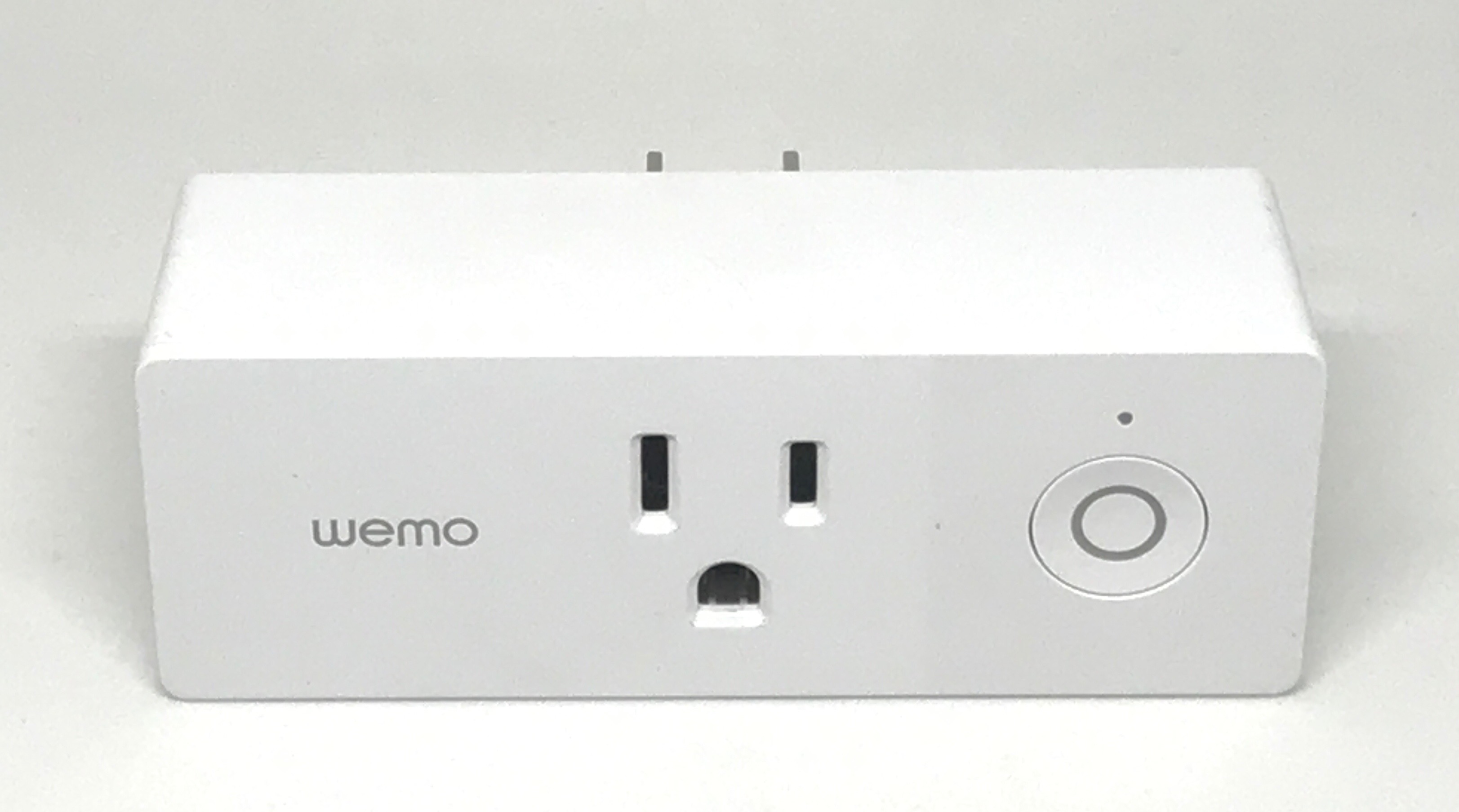 Wemo Mini Smart Plug by Belkin